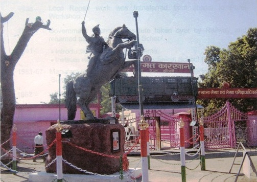 jhansi